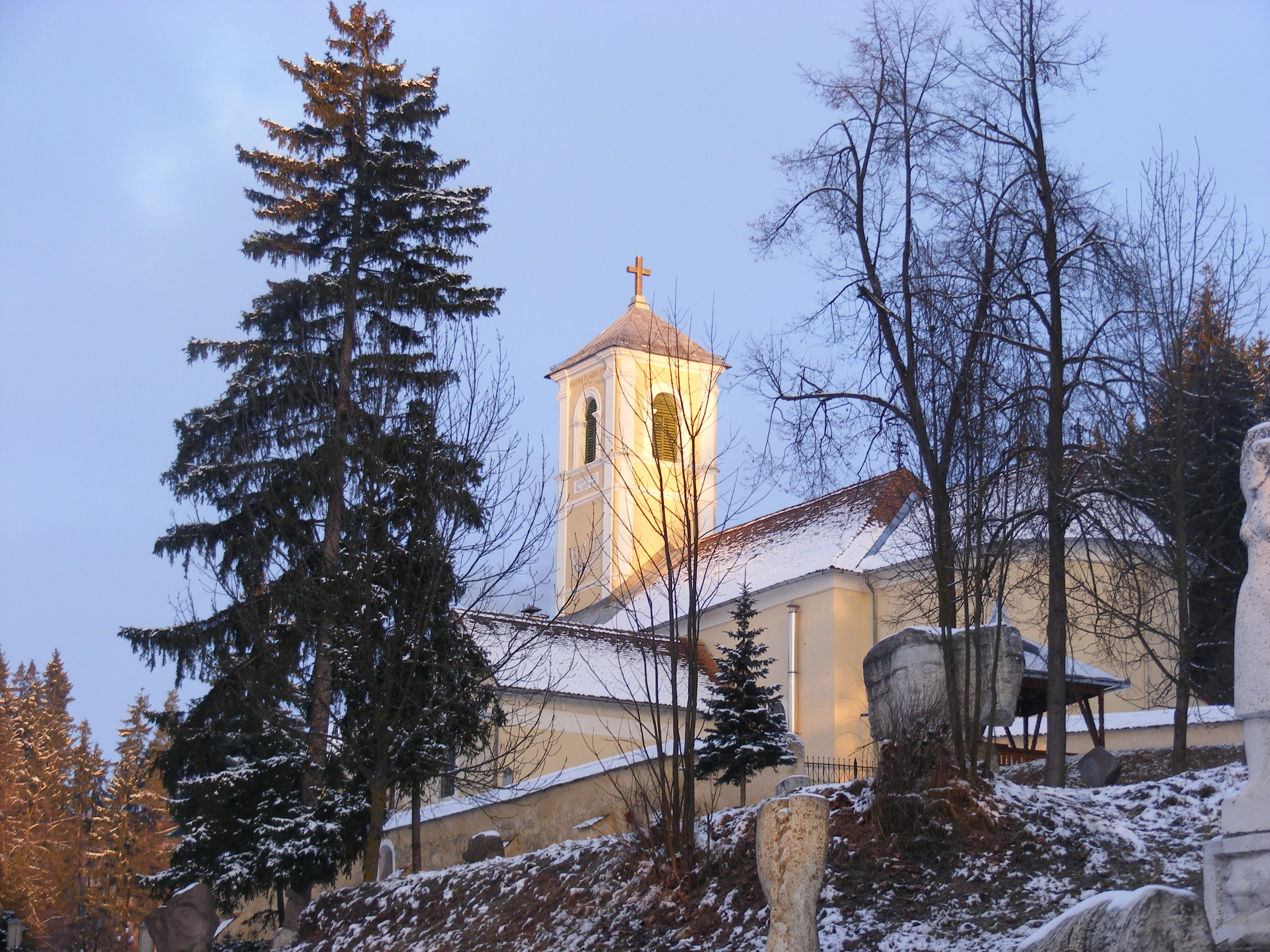 A romano-catholic abbey in Gyergyószárhegy (Lăzarea)